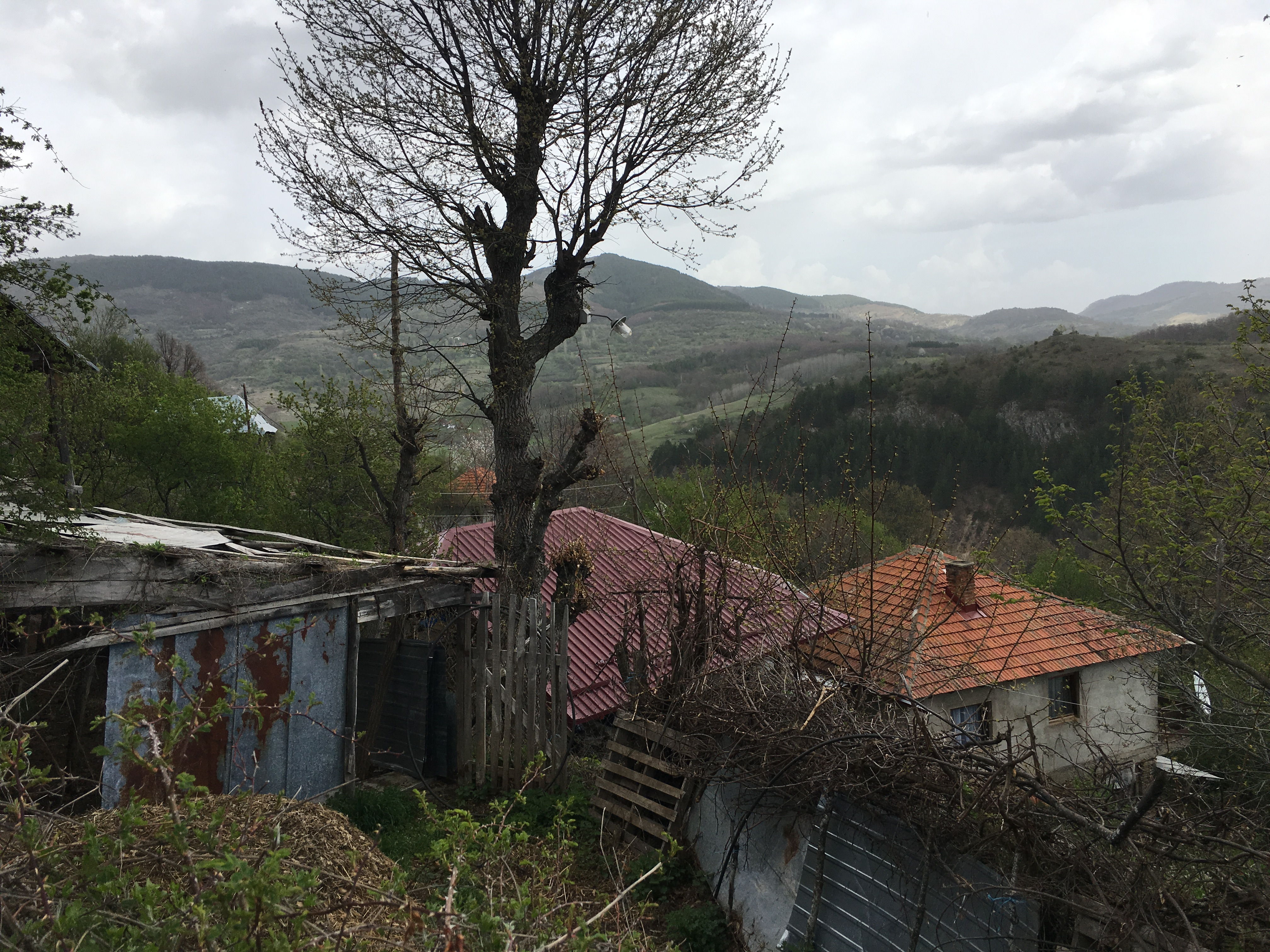 Houses in the village of Mala Crcorija